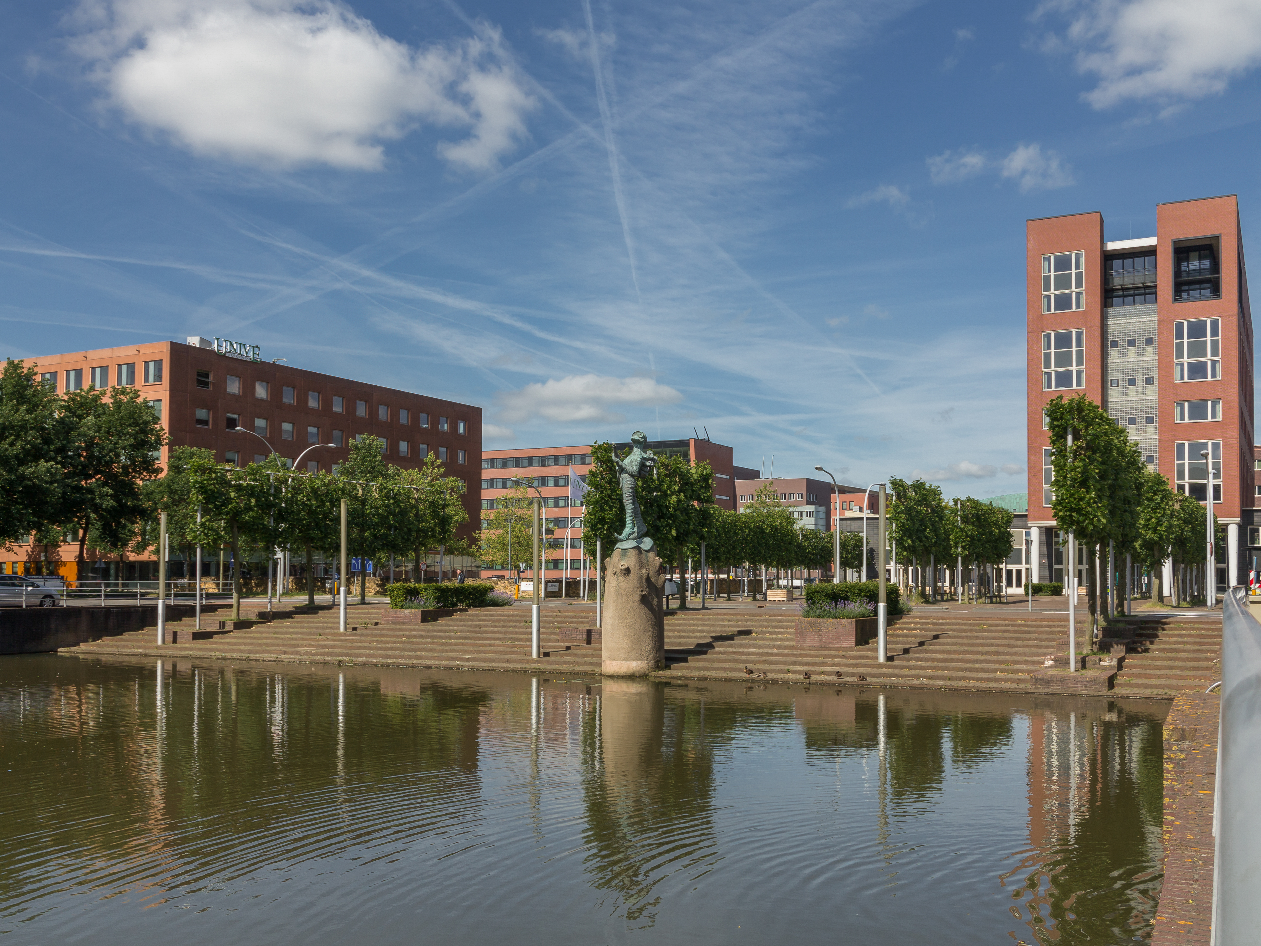 Zwolle, sculpture near het Hanzeplein